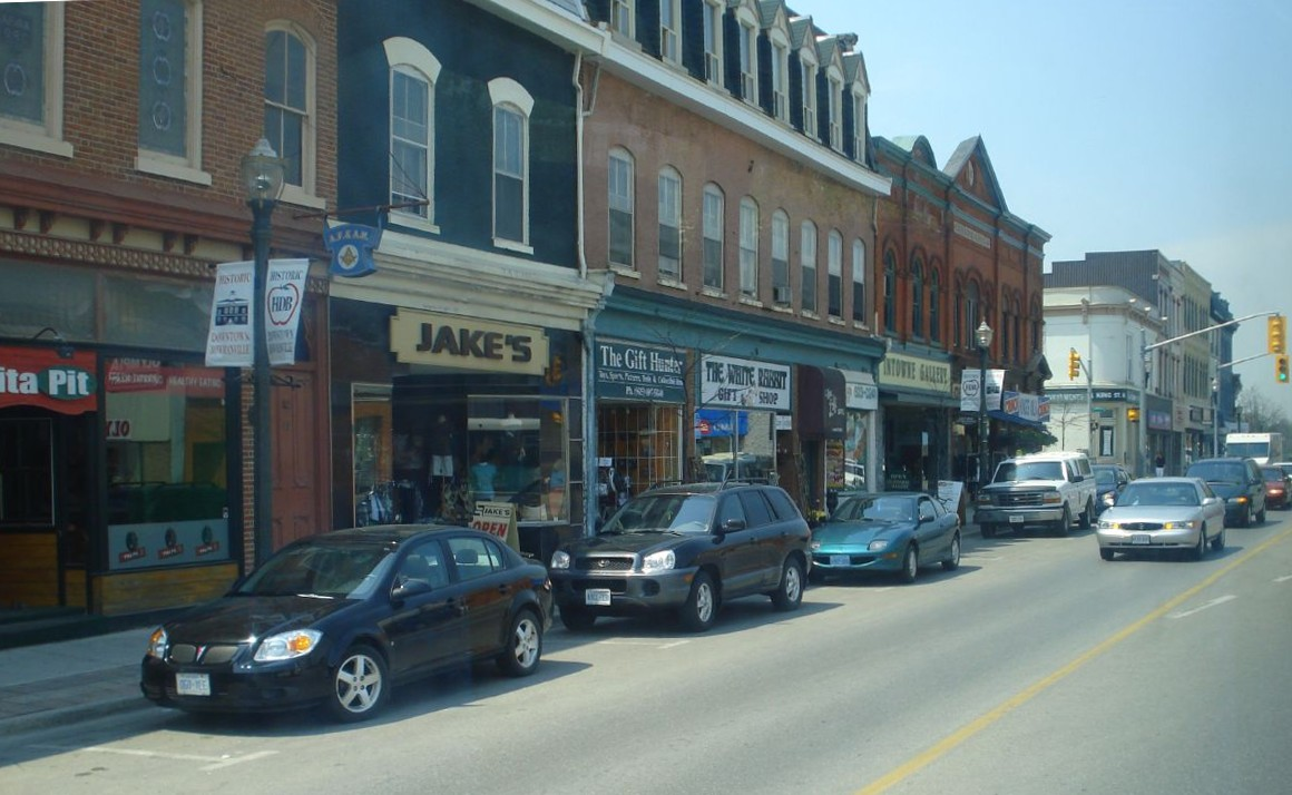 Downtown Bowmanville, Ontario - King St.